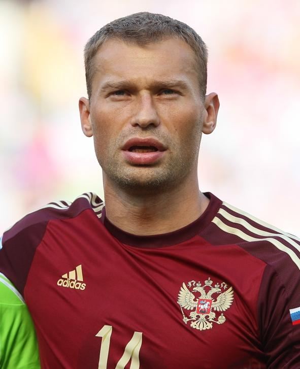 Vasili Berezutski representing Russian national team in a friendly game against Morocco in Moscow.